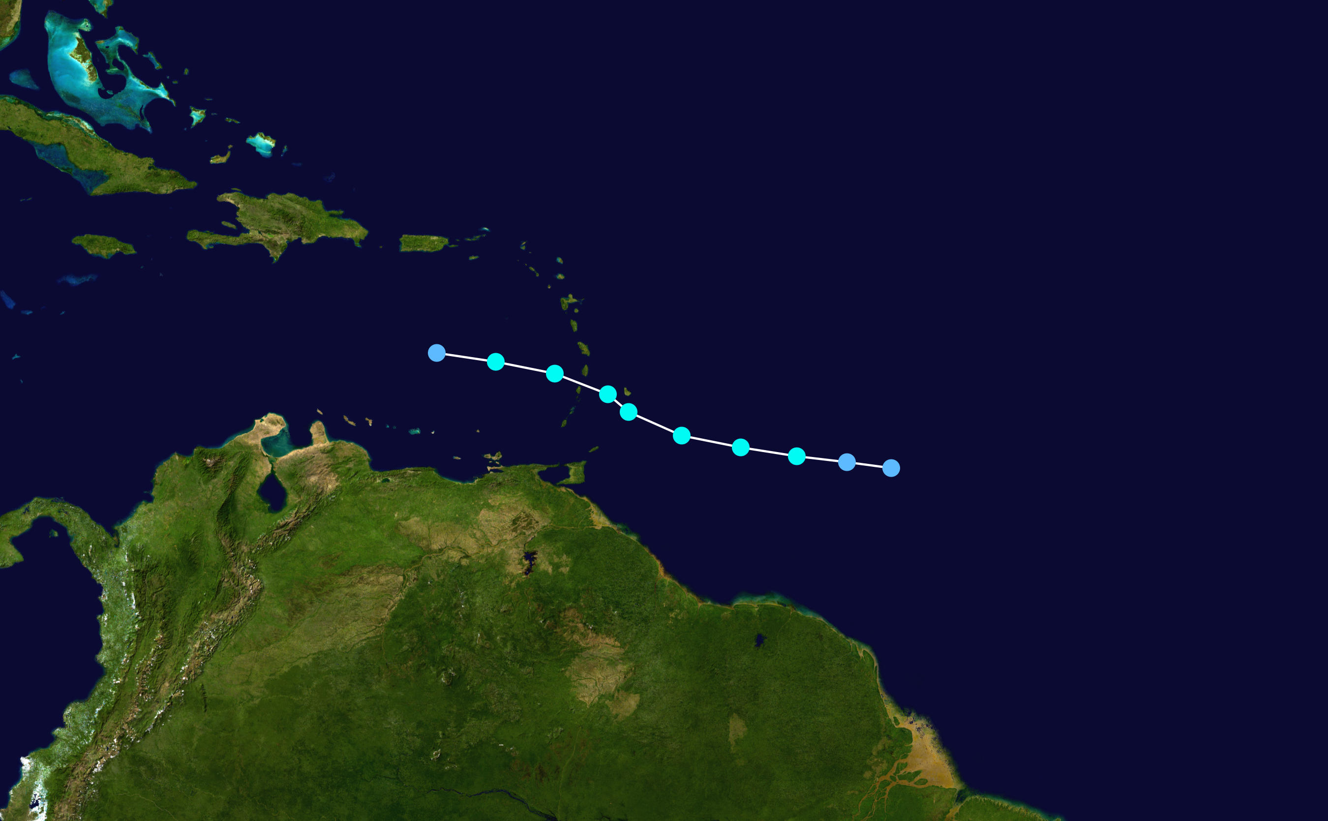 Track map of Tropical Storm Jerry of the 2001 Atlantic hurricane season. The points show the location of the storm at 6-hour intervals. The colour represents the storm's maximum sustained wind speeds as classified in the Saffir–Simpson scale (see below), and the shape of the data points represent the nature of the storm, according to the legend below. Saffir–Simpson scale Tropical depression≤38 mph≤62 km/h Category 3111–129 mph178–208 km/h Tropical storm39–73 mph63–118 km/h Category 4130–156 mph209–251 km/h Category 174–95 mph119–153 km/h Category 5≥157 mph≥252 km/h Category 296–110 mph154–177 km/h Unknown Storm type Tropical cyclone Subtropical cyclone Extratropical cyclone / Remnant low / Tropical disturbance / Monsoon depression